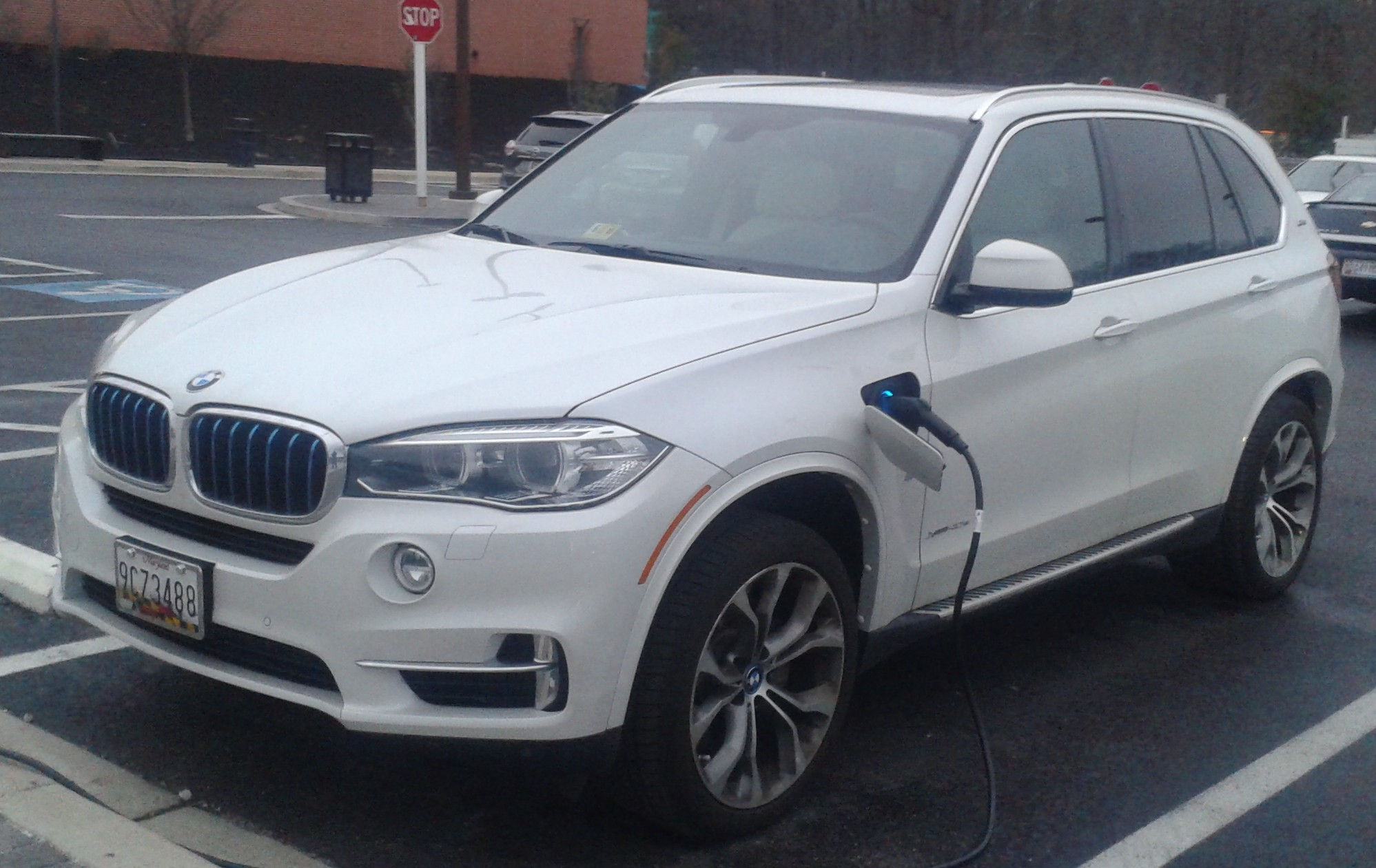 BMW X5 photographed in Maryland, USA.